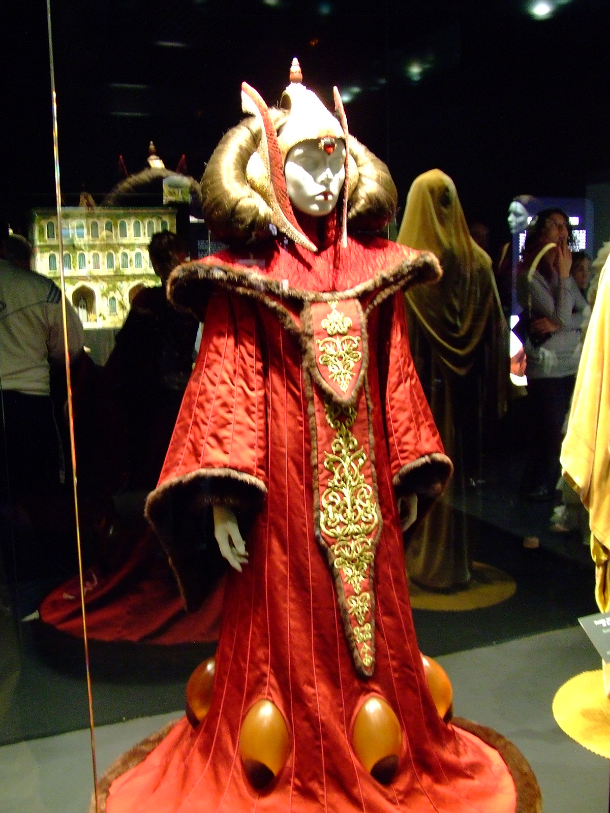 Amidala's Throne Room costume: taken at Star Wars — The Exhibition in Madrid, Spain